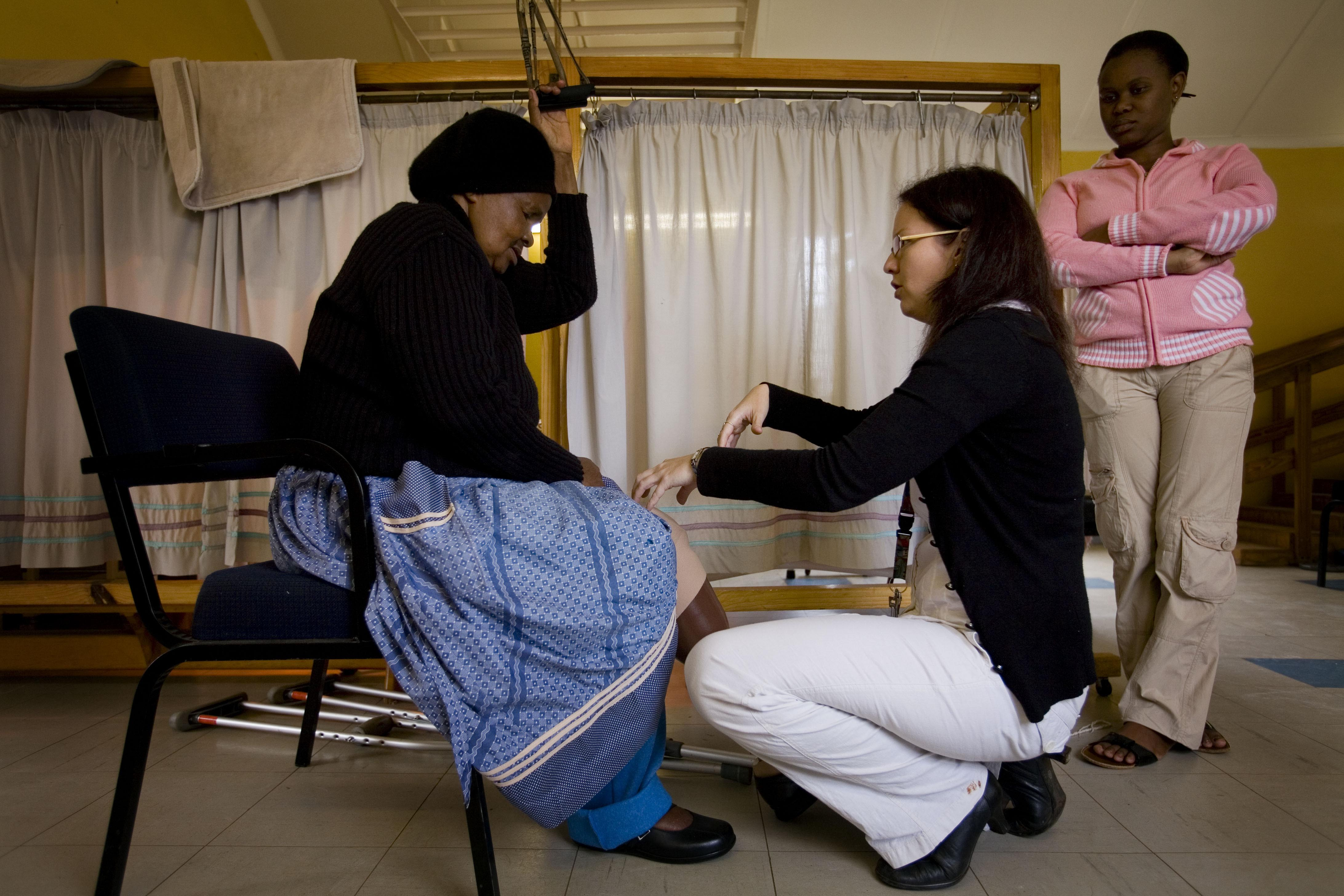 Erin Kresenthal, an Australian Volunteer who is working as an Occupational Therapy Adviser talks to a patient about their therapay at the Cheshire Homes in Matsapa, Swaziland on the 10th June, 2009. AusAid have contributed several sums of money that have bought mobility equipment for the gyms of the centre, including walking frames, weights and new wheelchairs. Photo: Kate Holt / AusAID